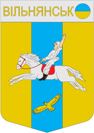 City coat of arms Vilnyansk Zaporizhia Oblast, Ukraine.